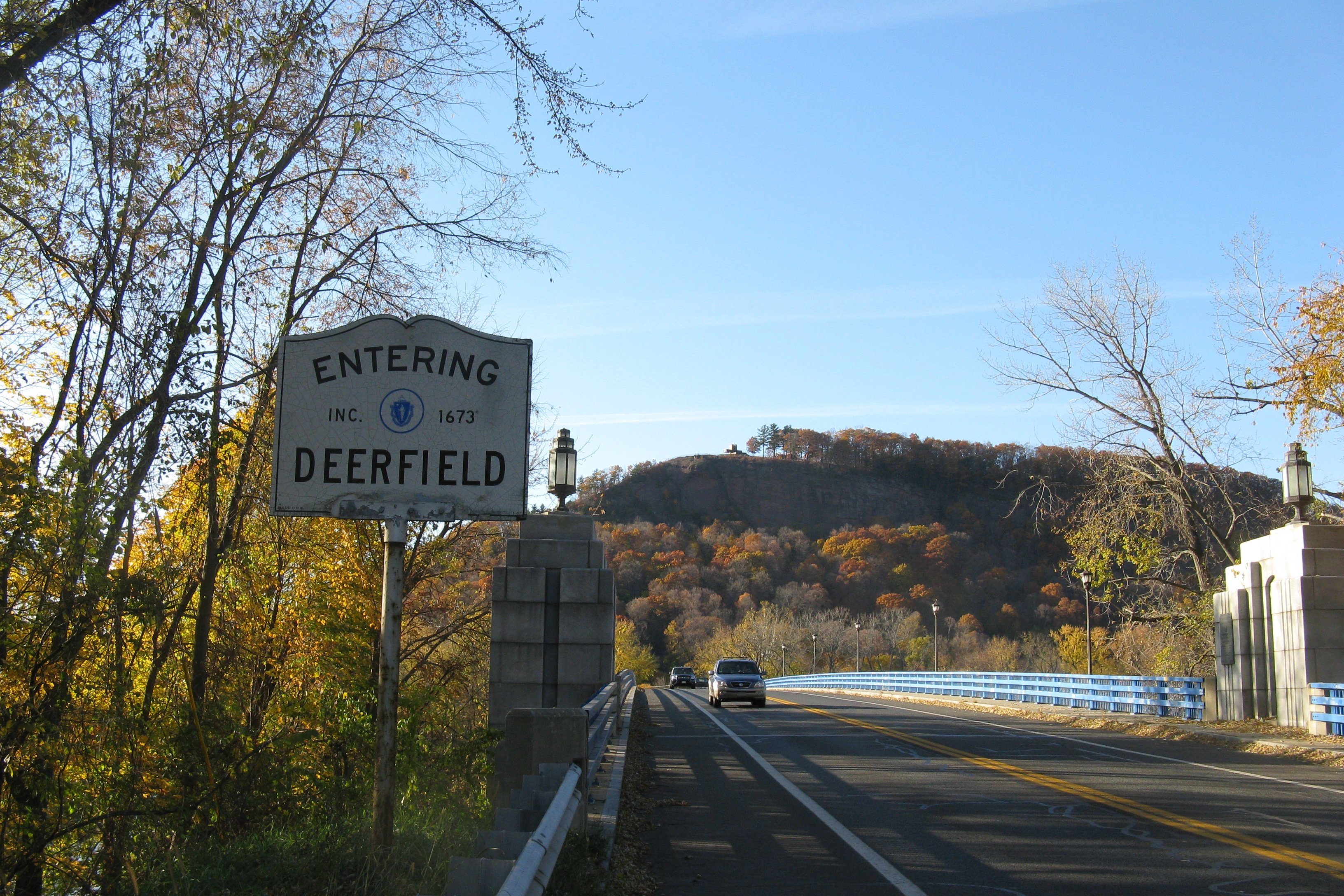 Massachusetts Route 116 crossing the Sunderland Bridge, Deerfield Massachusetts - Sugarloaf Mountain in the background